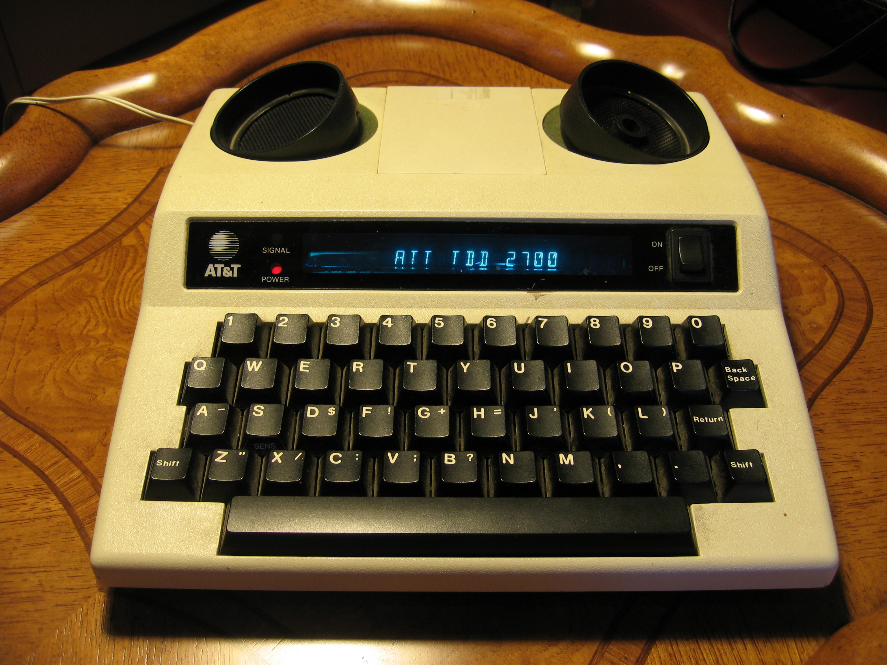 Picture of an AT&T TDD 2700